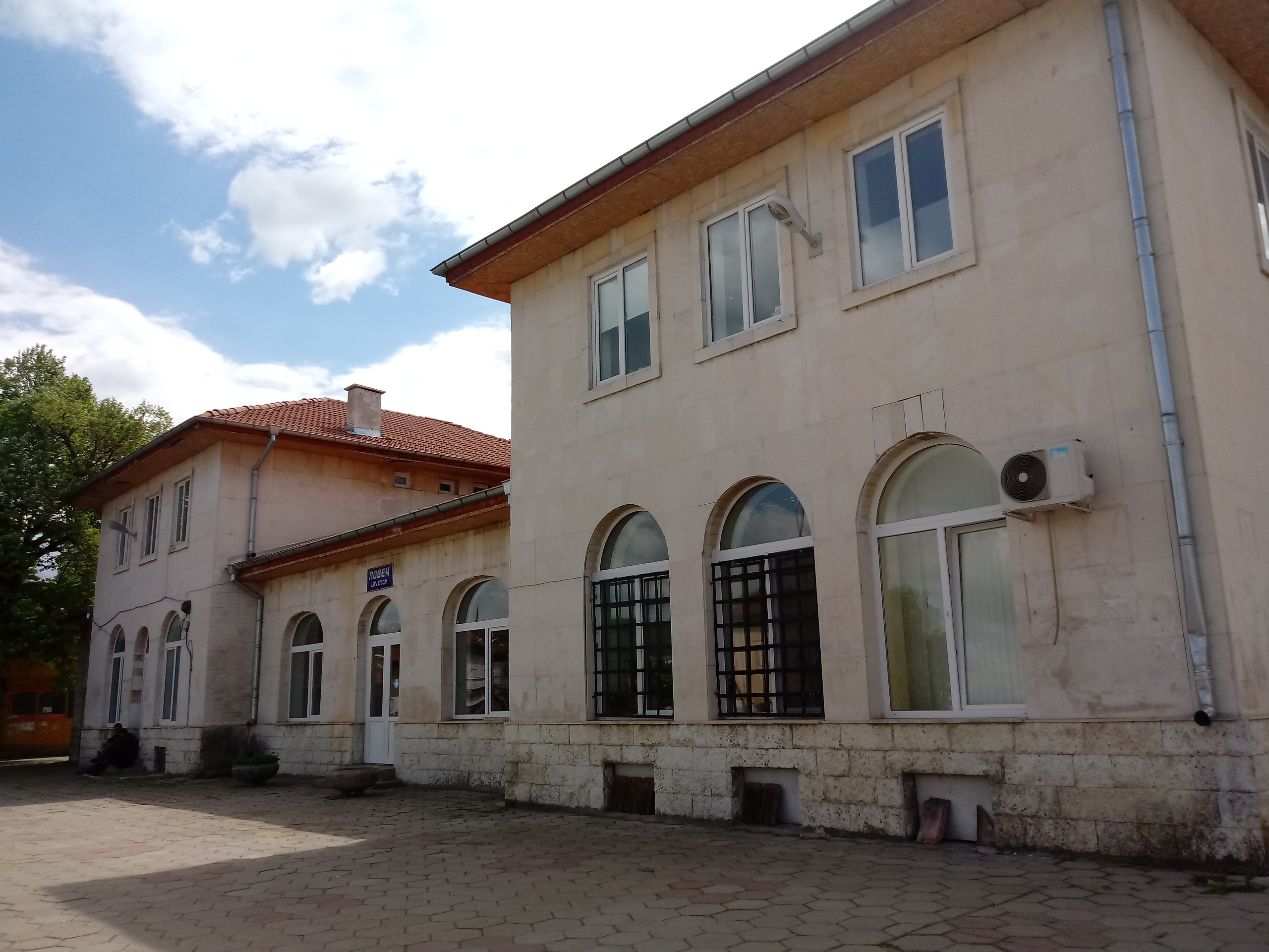 Railway station in Lovech, Bulgaria